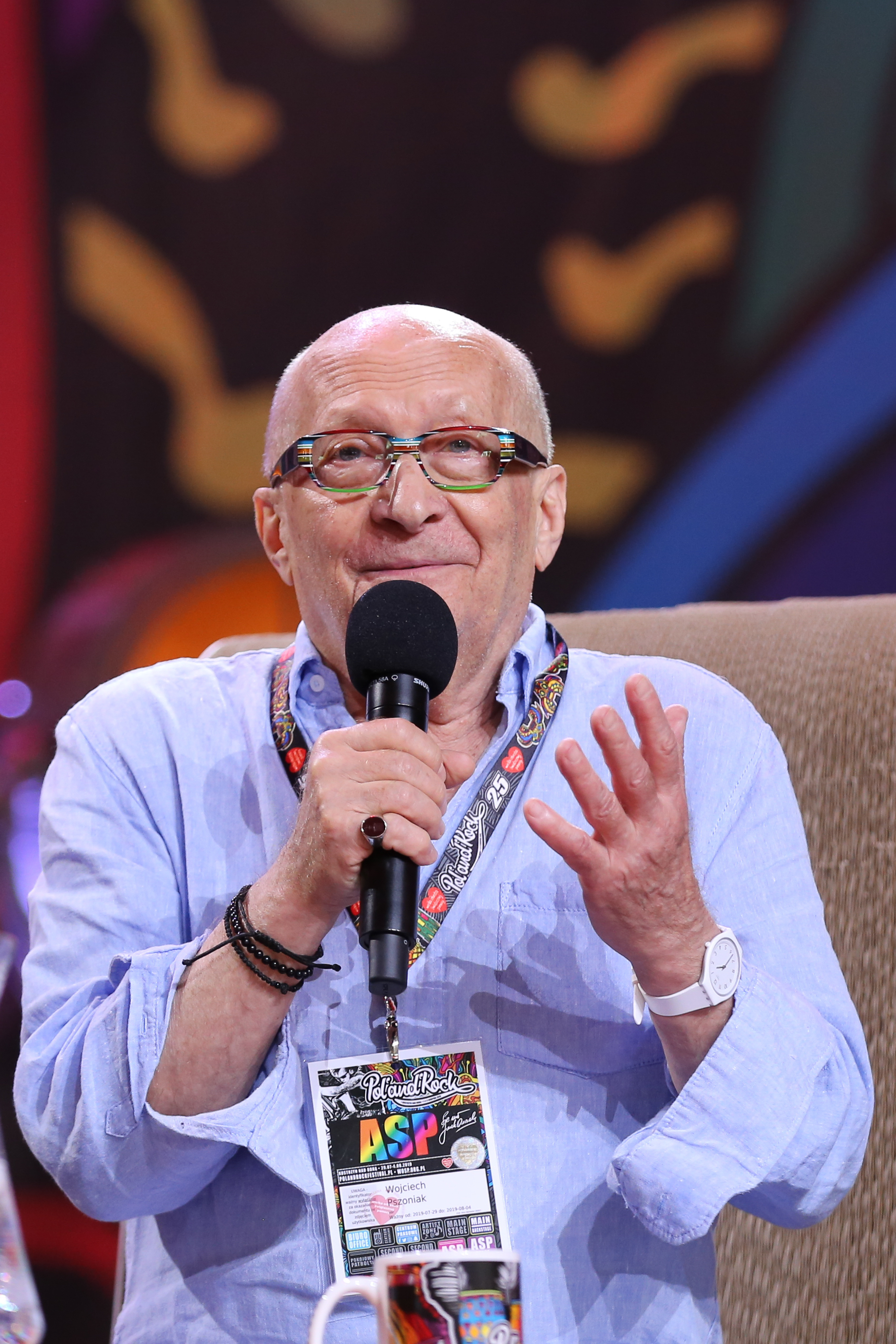 Pol'and'Rock Festival in 2019.